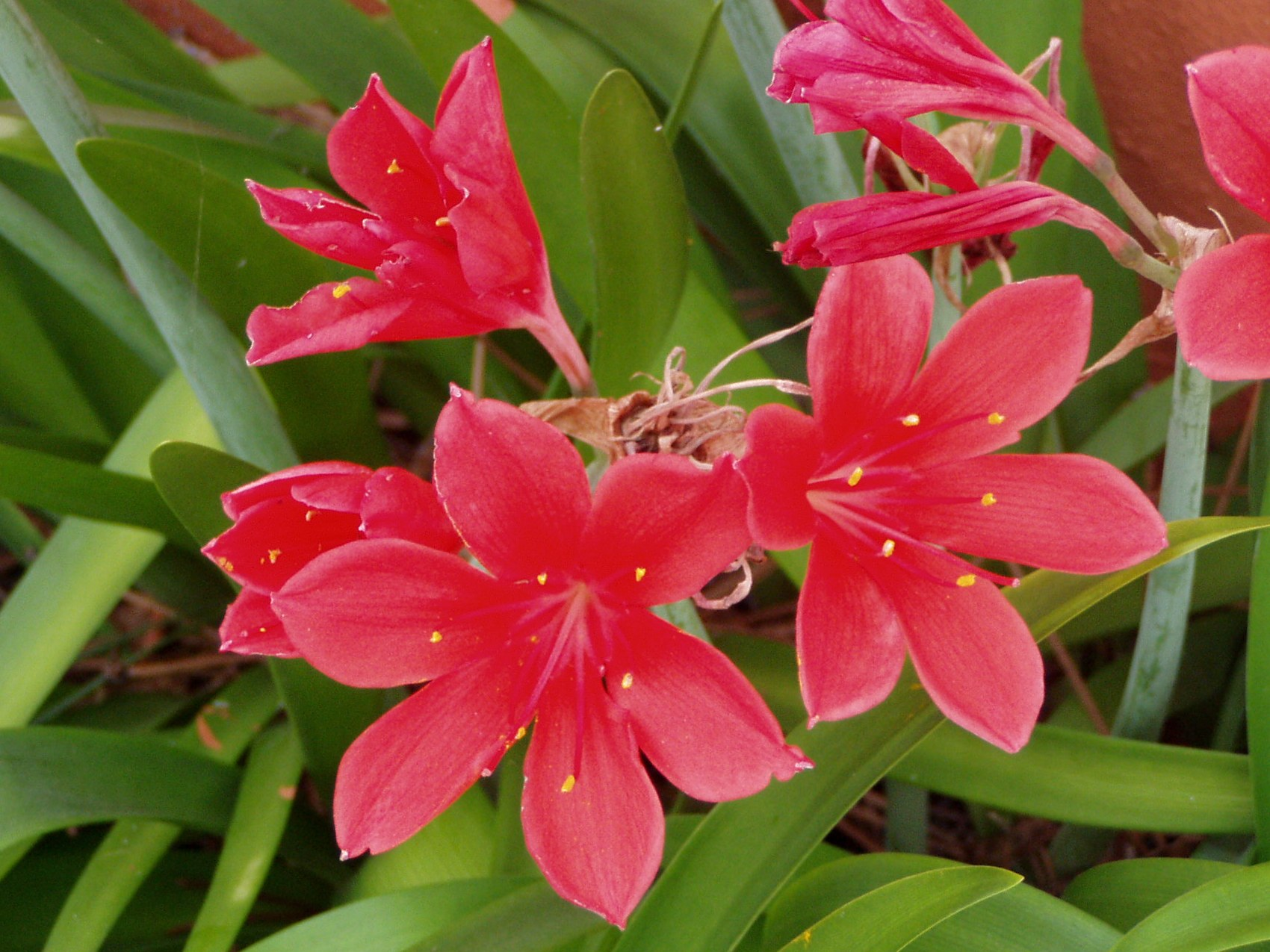 Scarborough Lily. Flowers, cultivated. Alcobaça, Portugal.